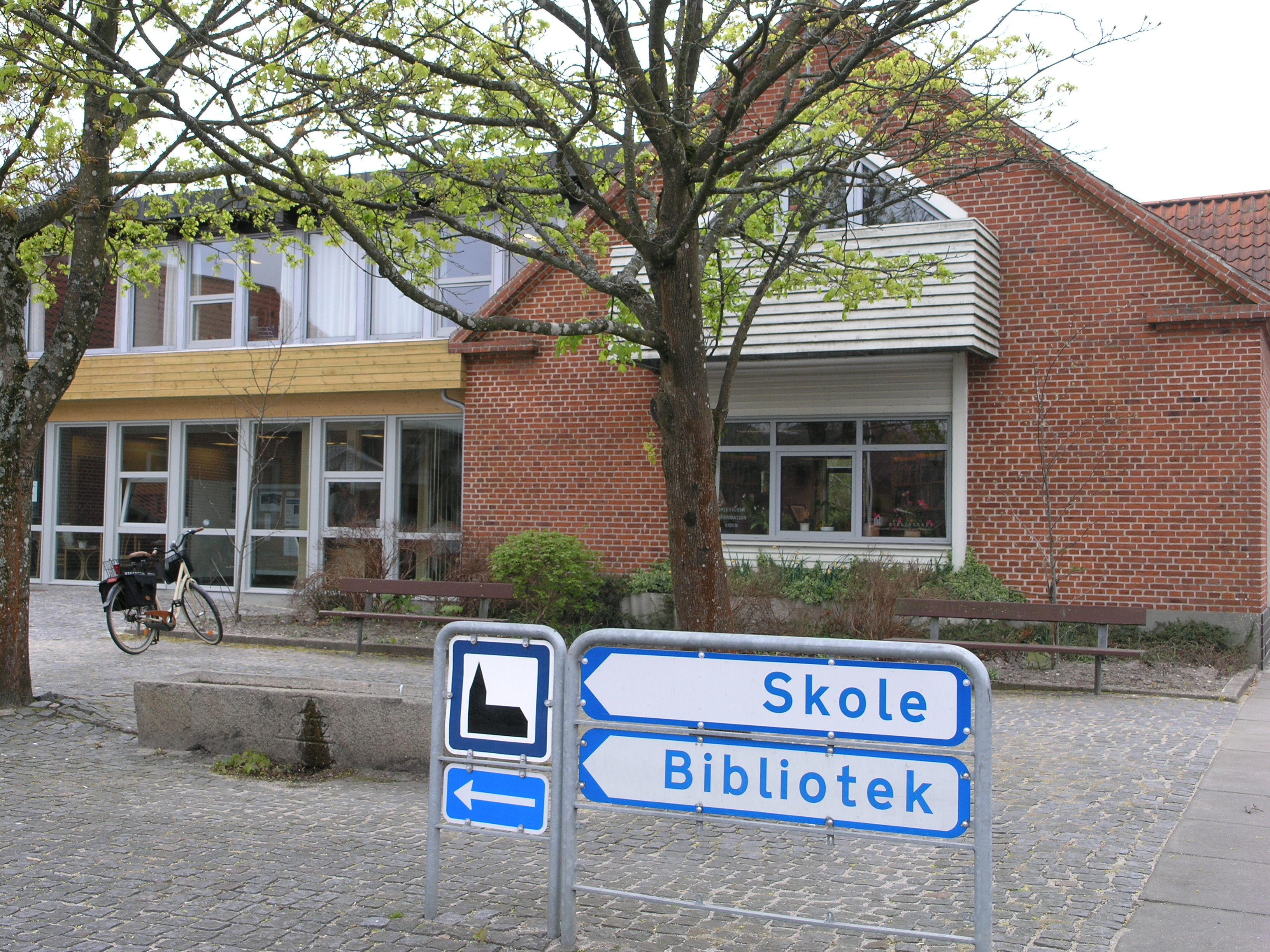 Library in Nørre Nebel, Denmark